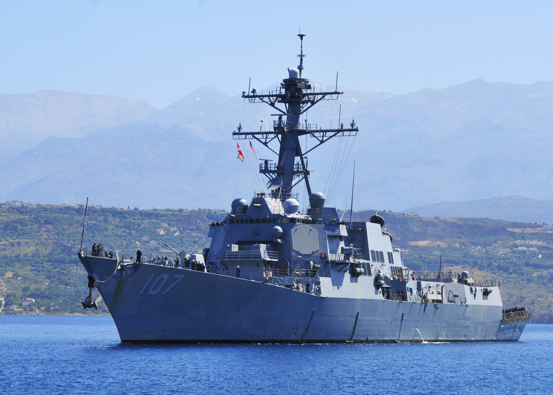 The guided-missile destroyer USS Gravely (DDG 107) arrives for a scheduled port visit. Gravely, homeported in Norfolk, Va., is on a scheduled deployment supporting maritime security operations and theater security cooperation efforts in the U.S. 6th Fleet area of responsibility. (U.S. Navy photo by Paul Farley/Released)